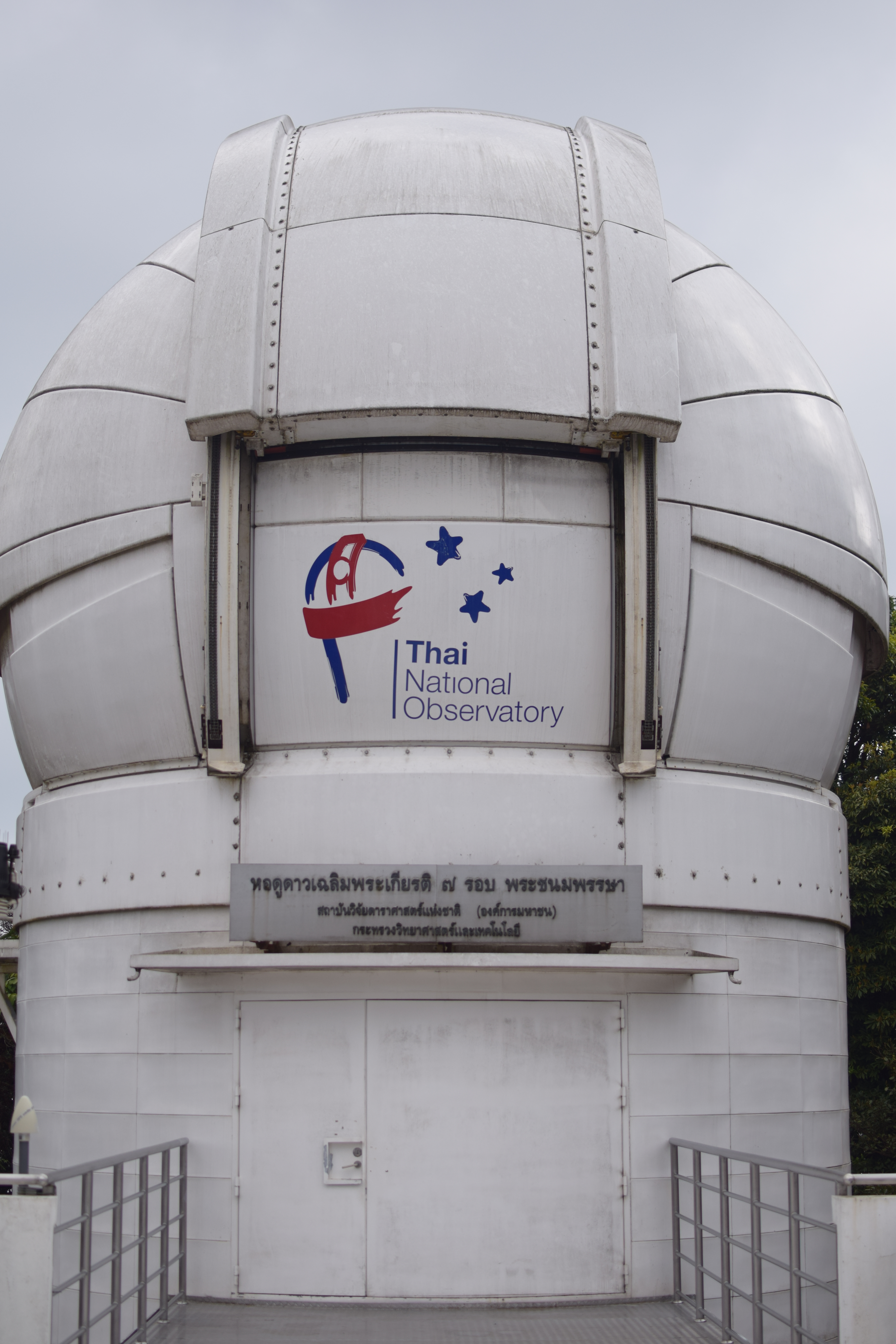 Image of the dome and entrance of the 2.4-m Thai National Telescope (TNT) at the Thai National Observatory (TNO)